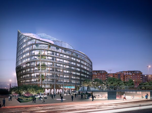 The Co-operative Group has received planning permission from Manchester City Council to build its new head office in Manchester. The new building, which will be constructed on land on Miller Street, opposite the Co-operative Insurance tower, will serve as the head office for The Co-operative Group, the UK’s largest mutual retailer. Watch a virtual tour of The Co-operative Group’s new head office